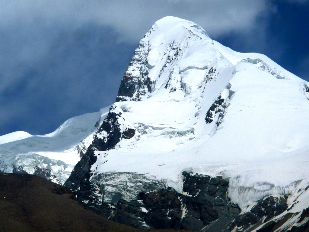 I took this photo on my way to Tashkurgan in 2011